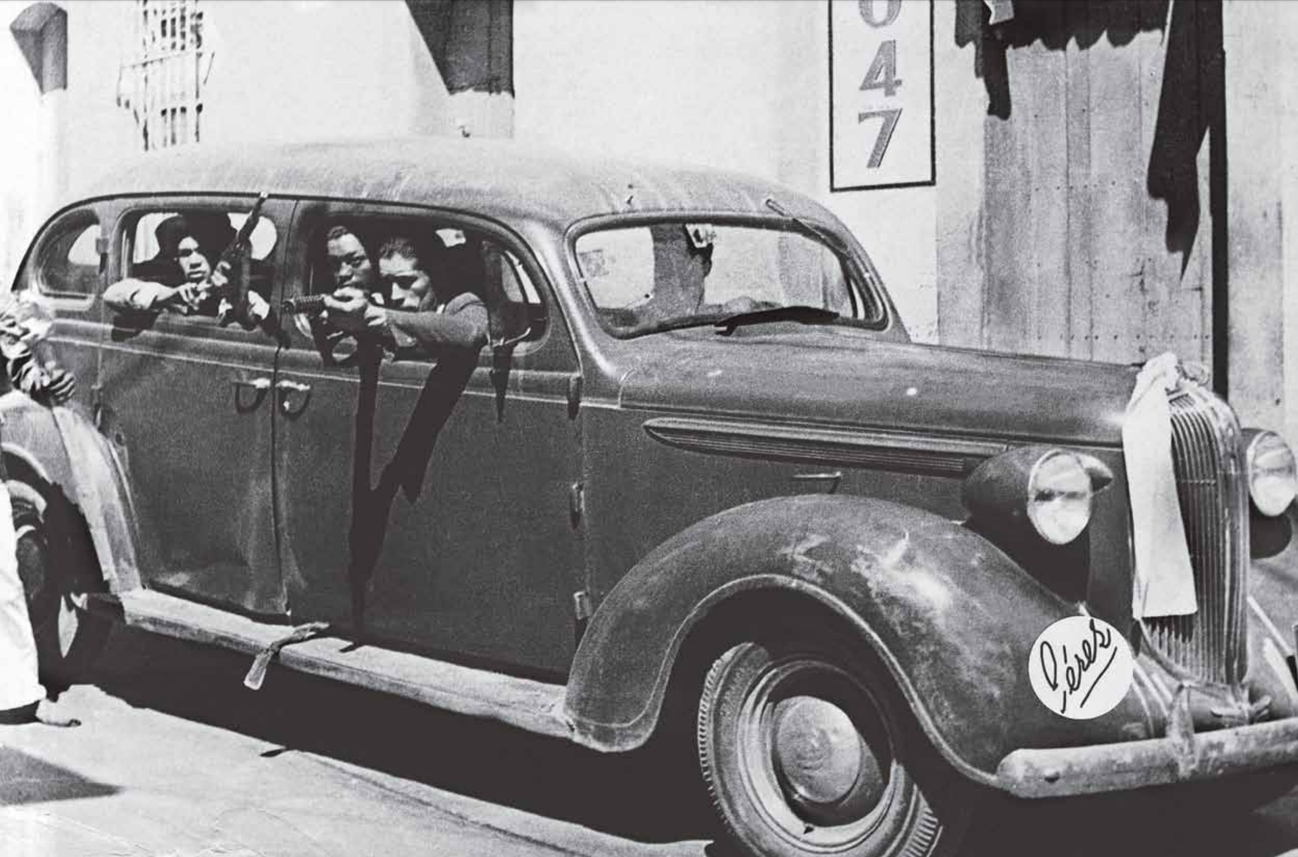 En los combates del 18 de octubre de 1945, Venezuela, participan unos cuantos civiles mal armados que apoyan a las tropas alzadas